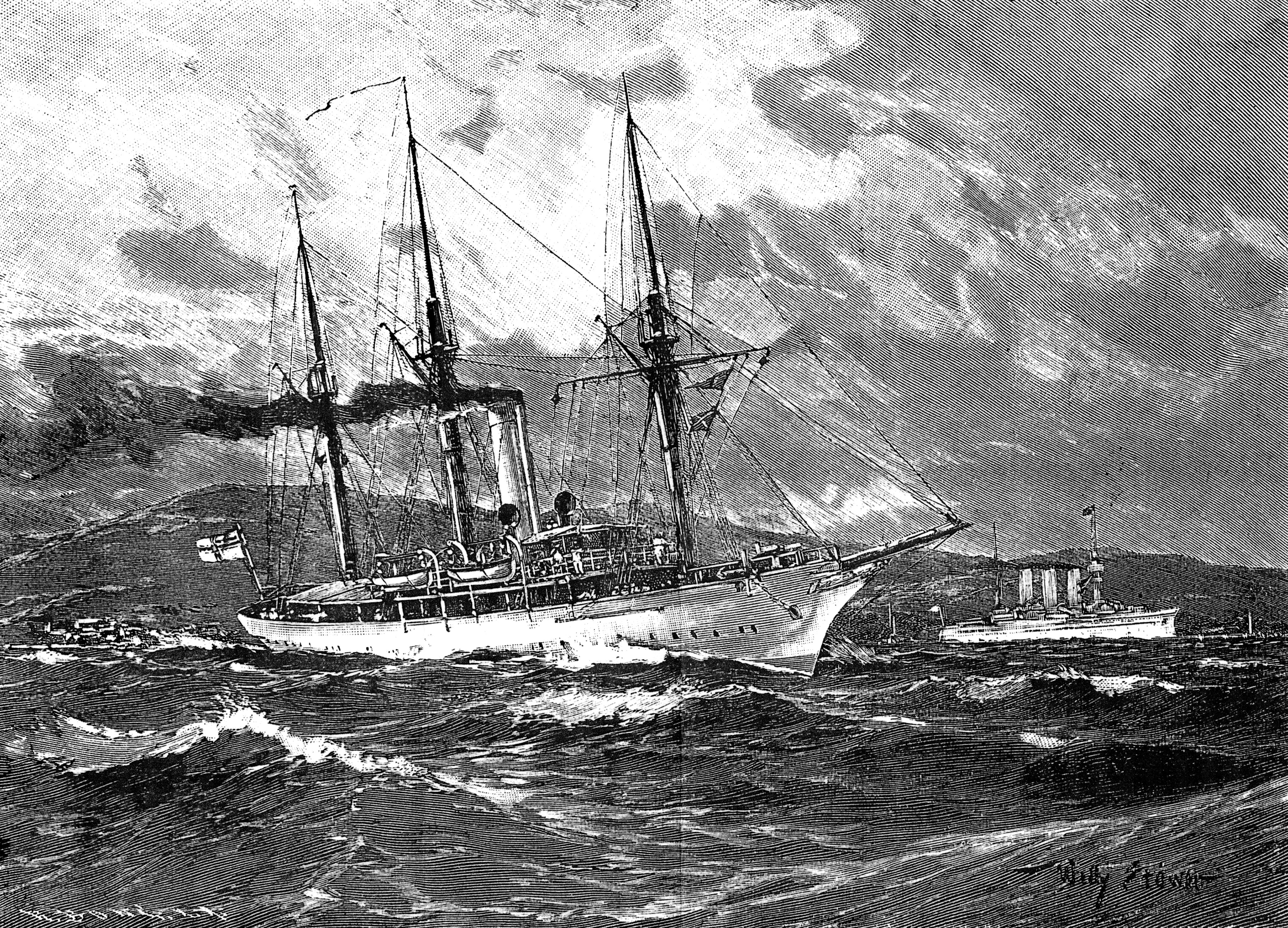 German gunboat SMS RESTAURADOR at the coast of Venezuela. In the background SMS VINETA. Illustration by Willy Stöwer round about 1903